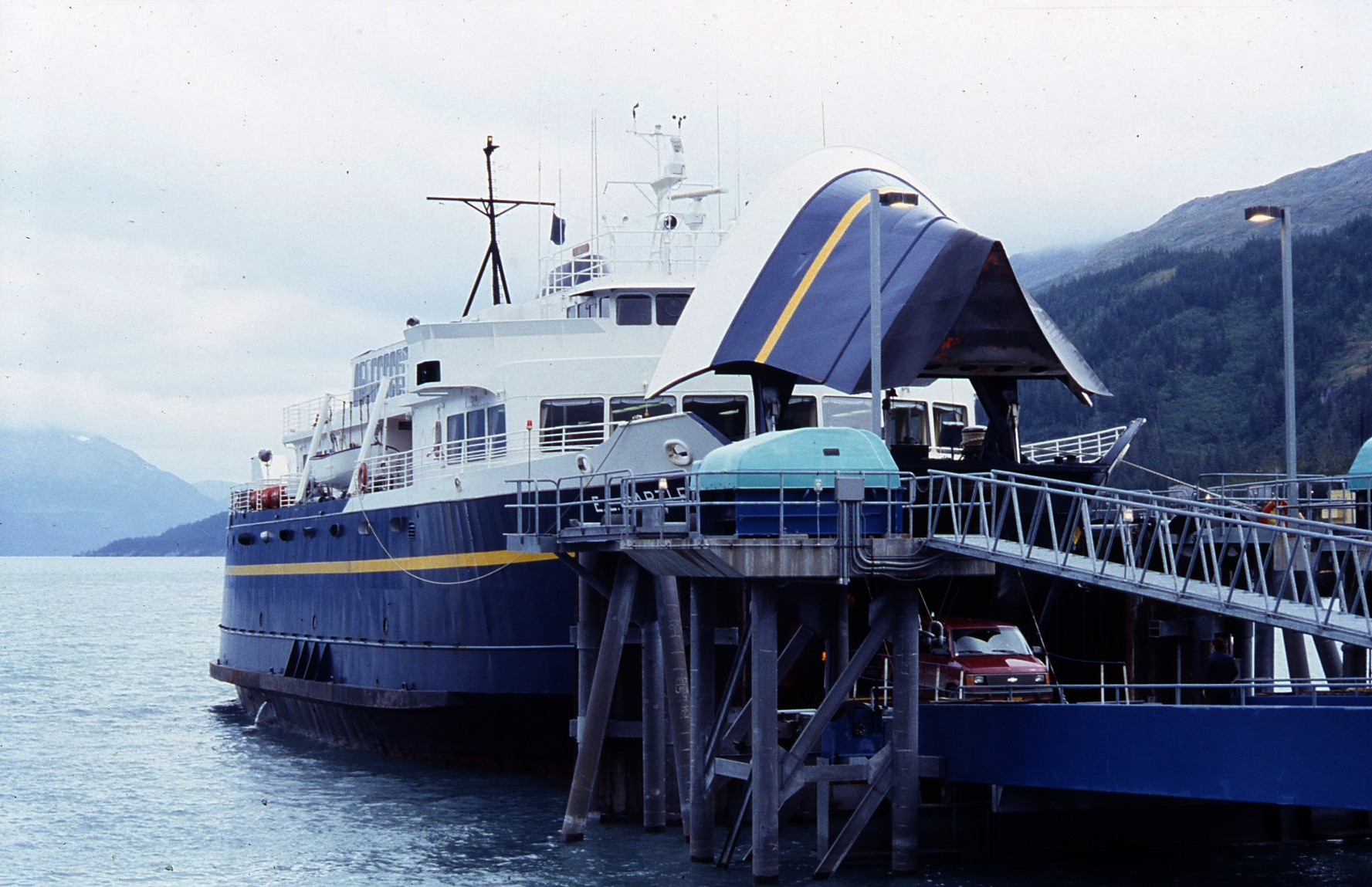 MV Bartlett unloading vehicles in Whittier, Alaska